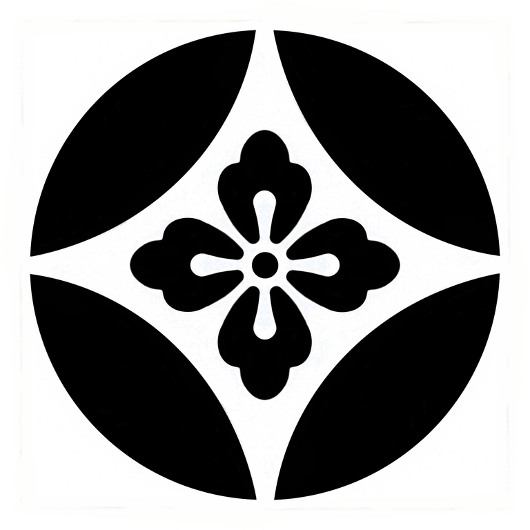 This is a family crest. "Hana_wachigai" "Shippo_ni_hanakaku" This is mainly used by Izumo Genji clan.